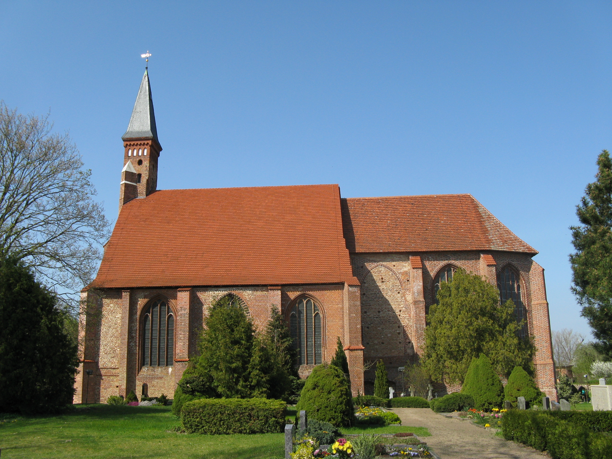 Monastery church in Tempzin, disctrict Parchim, Mecklenburg-Vorpommern, Germany